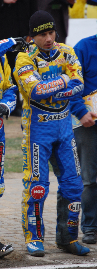 Danish speedway rider Nicki Pedersen before the match of Stal Gorzów (season 2010).